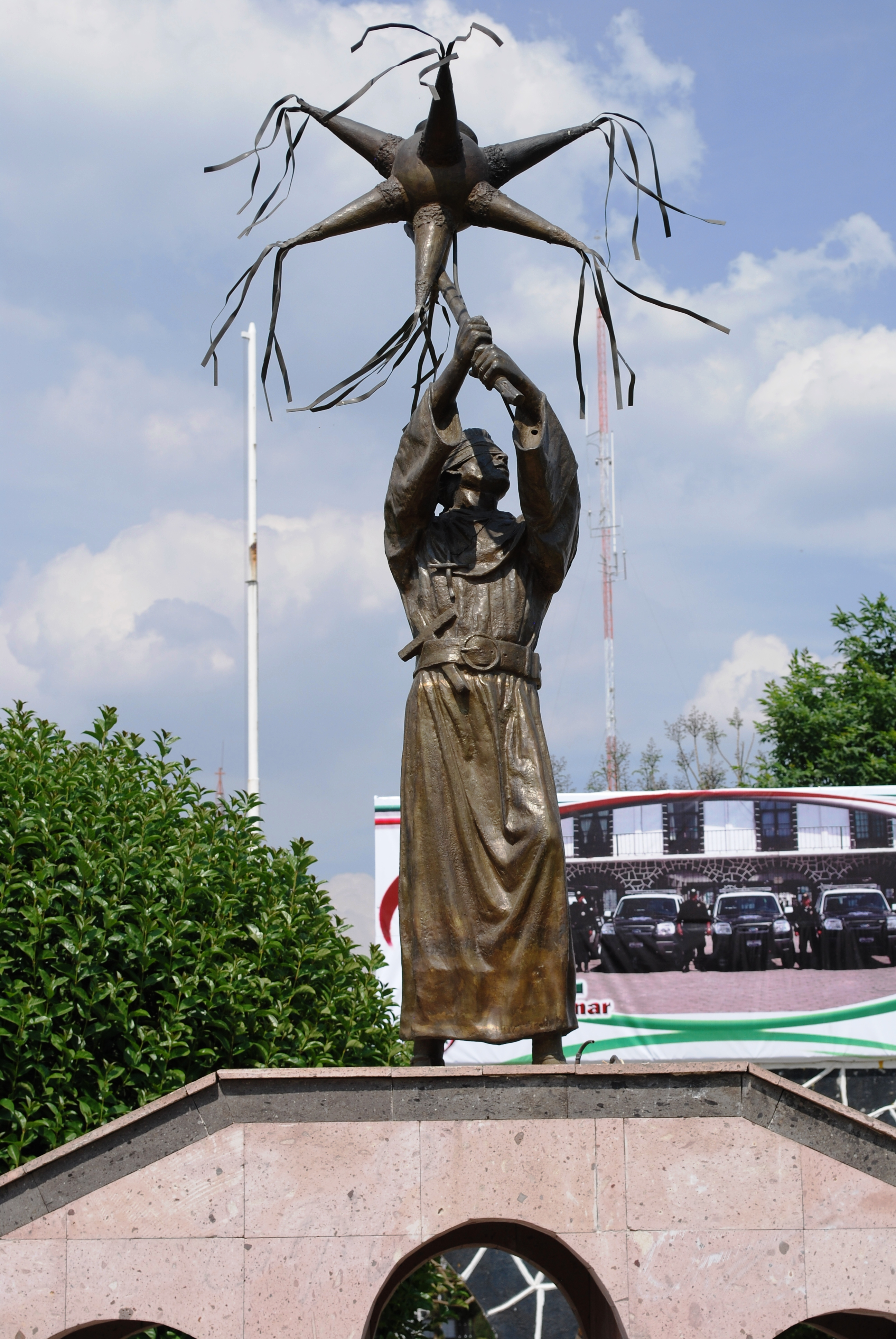 Statue of monk hitting a piñata in Acolman, Mexico State, Mexico